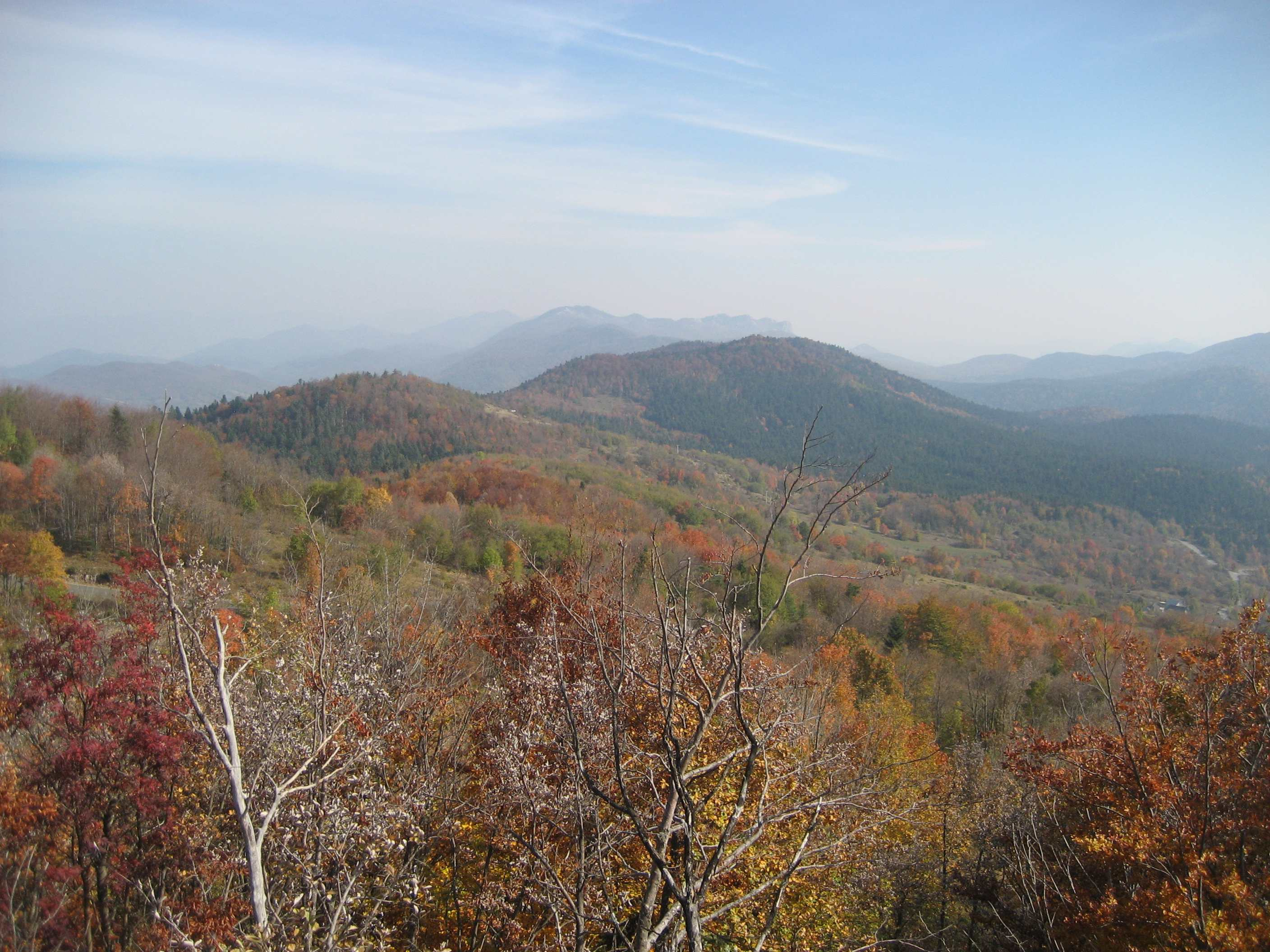 View from Krasno Polje to the Velebit and Dinaric Alps